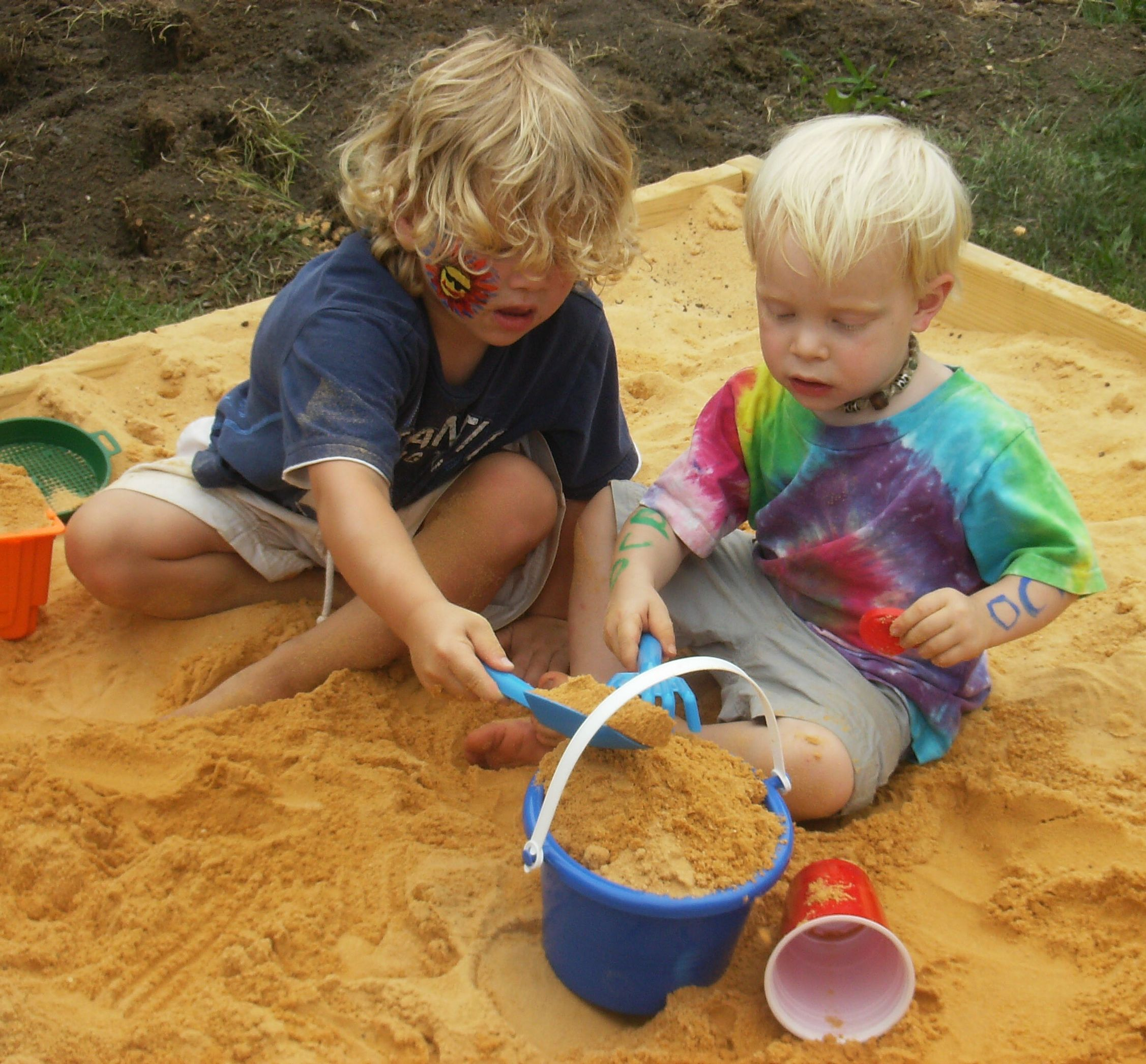 Children play in Our Community Place sandbox at the Lawn Jam June 28, 2008 in Harrisonburg, Virginia.